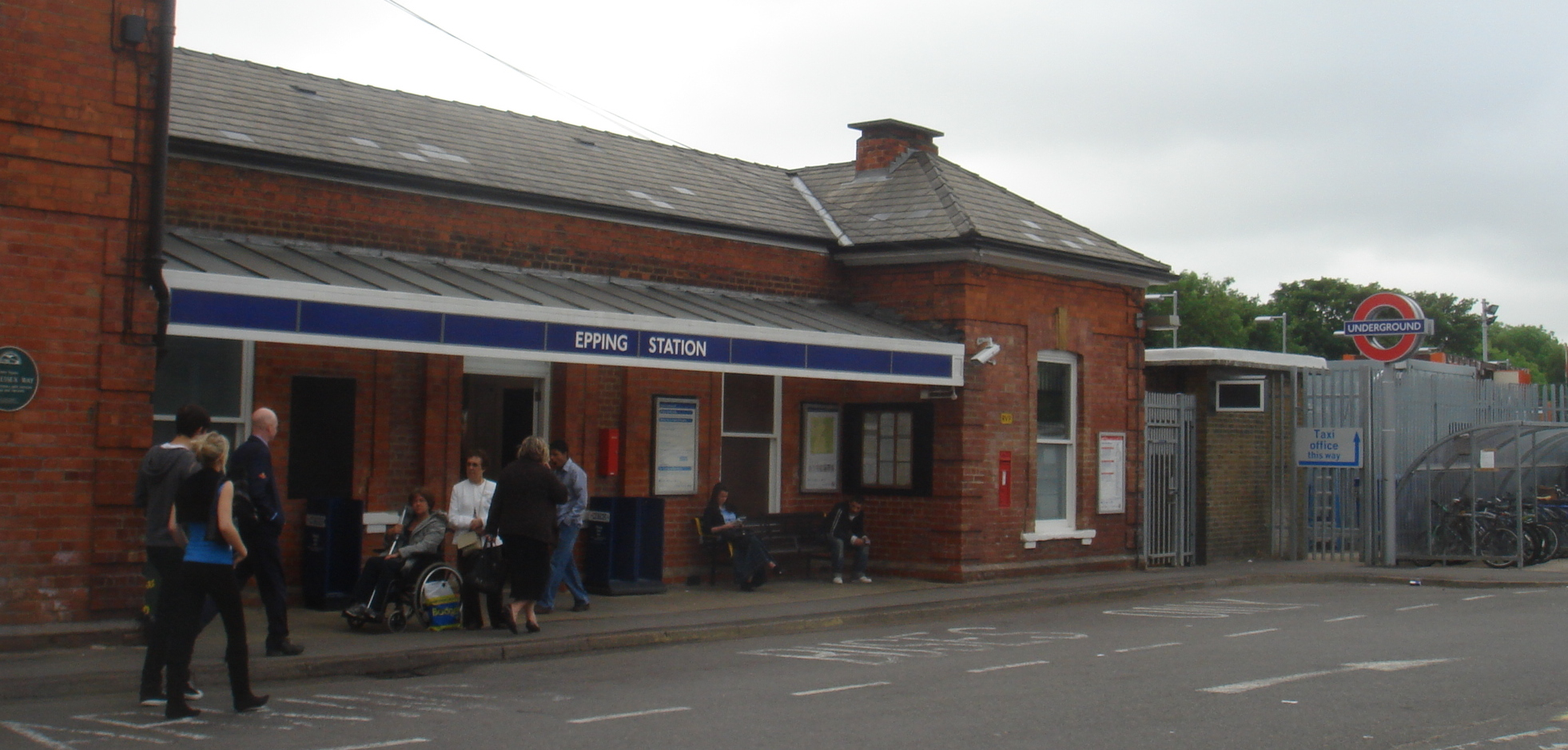 The exterior of Epping tube station